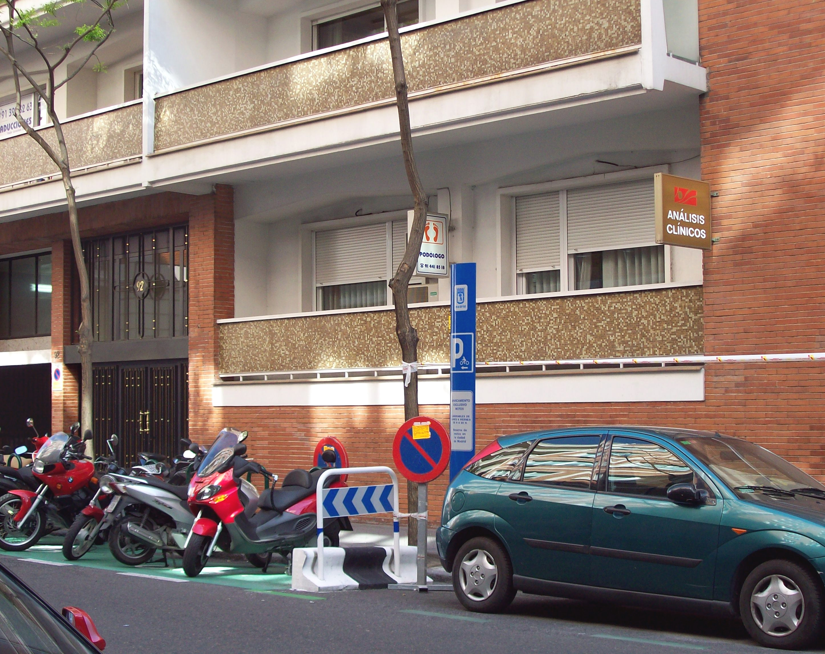 Exterior of the building at 92 Calle de Zurbano (street) in Chamberí district in Madrid (Spain). In it, there is a laboratory property of José Luis Merino Batres, a person implicated in the Operación Puerto doping case.